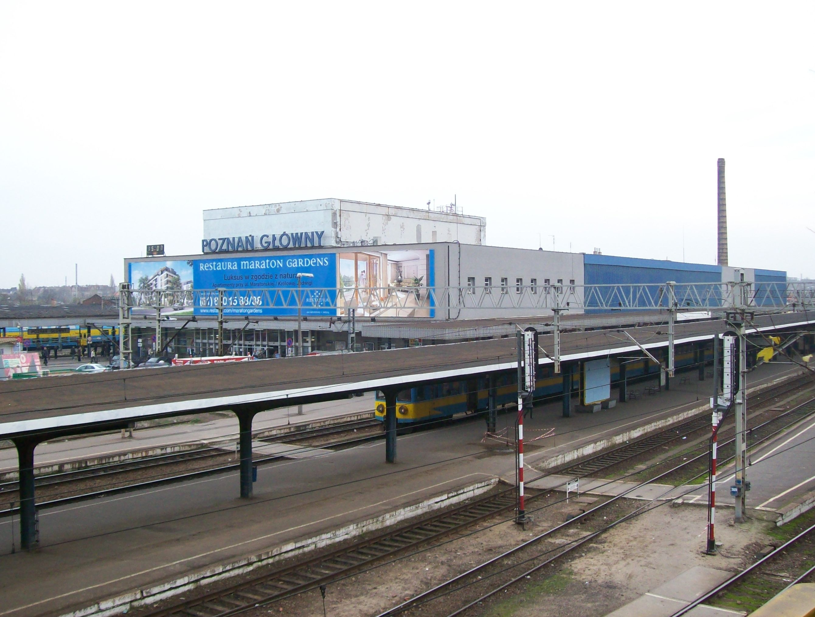 Central railway station in Poznań.